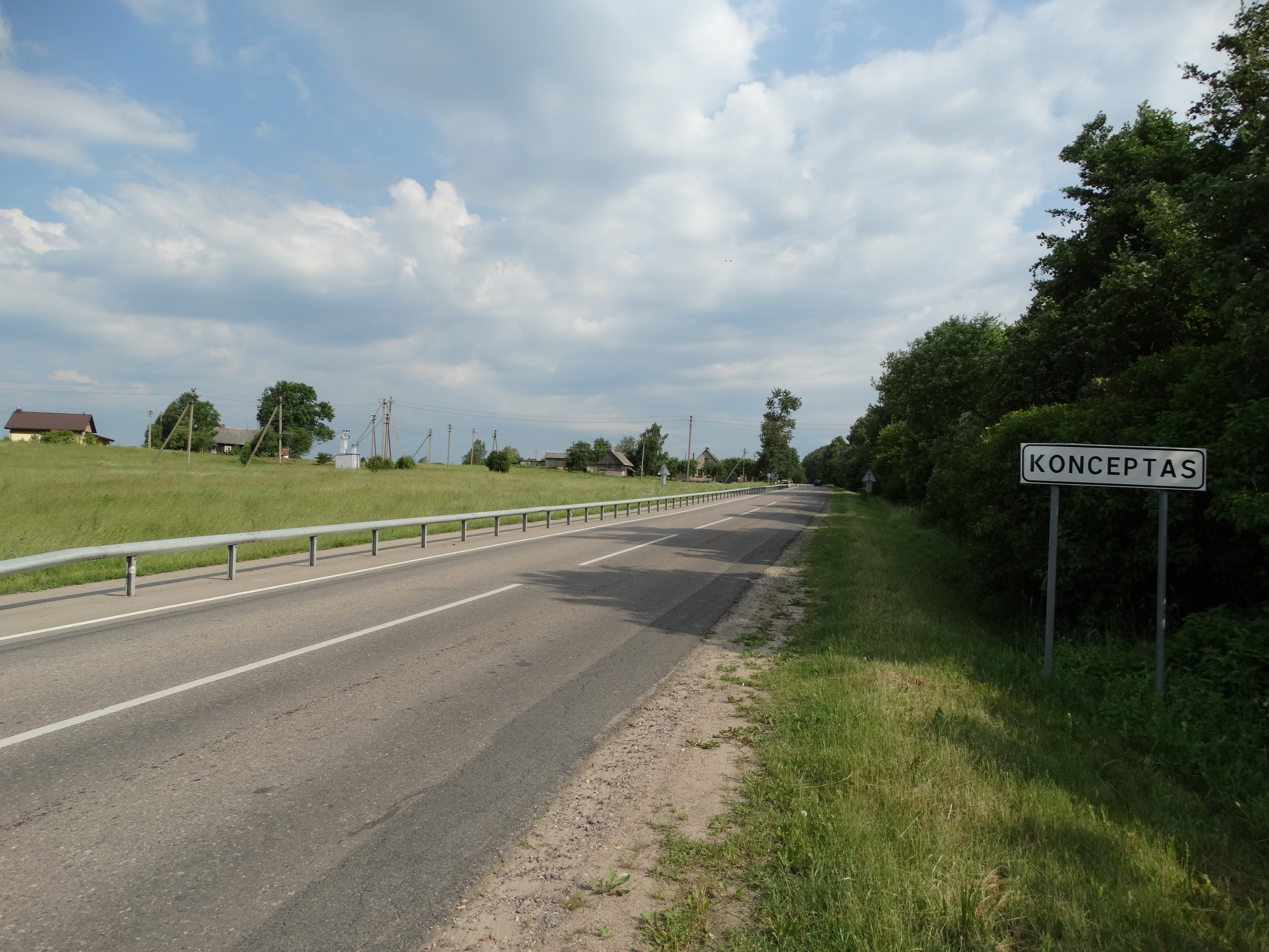 Road KK224 by Konceptas, Jonava District, Lithuania